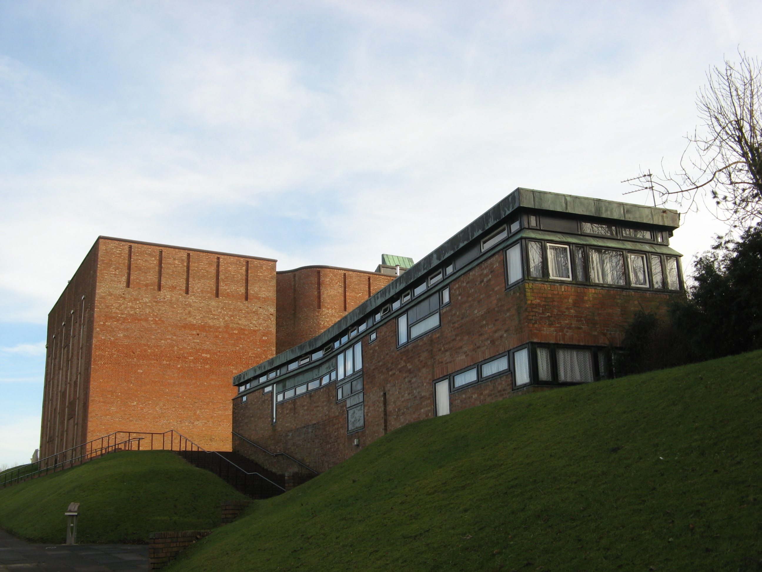 St Bride's Catholic Church, East Kilbride. Designed by Gillespie, Kidd & Coia in 1962-63. Seen from the west, the presbytery in the foreground.